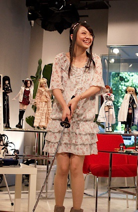 The first few episodes of Culture Japan were filmed in the studio but there is a cost involved and we were producing the program on a shoestring budget. A studio shoot involves the cost of the camera crew, lighting, sound and set layout. After filming, the data is then dropped onto a tape which we then have take to another studio to convert to Apple Prores. We figured we could save the cost the studio and shoot elsewhere (like my office) without degrade of quality in the show and it turned out to work very well. Here I'm with sweetsome anime voice actress Shiori Mikami shooting the studio section for Episode 1 and 2. By Danny Choo - View more at